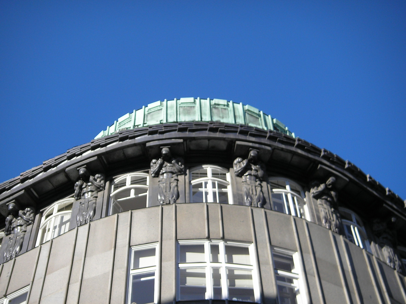 Image of the Zacherl-Haus in Vienna's first district Innere Stadt, located at Brandstätte 6. Constructed by the Slovenian architect Jože Plečnik around 1903-5.